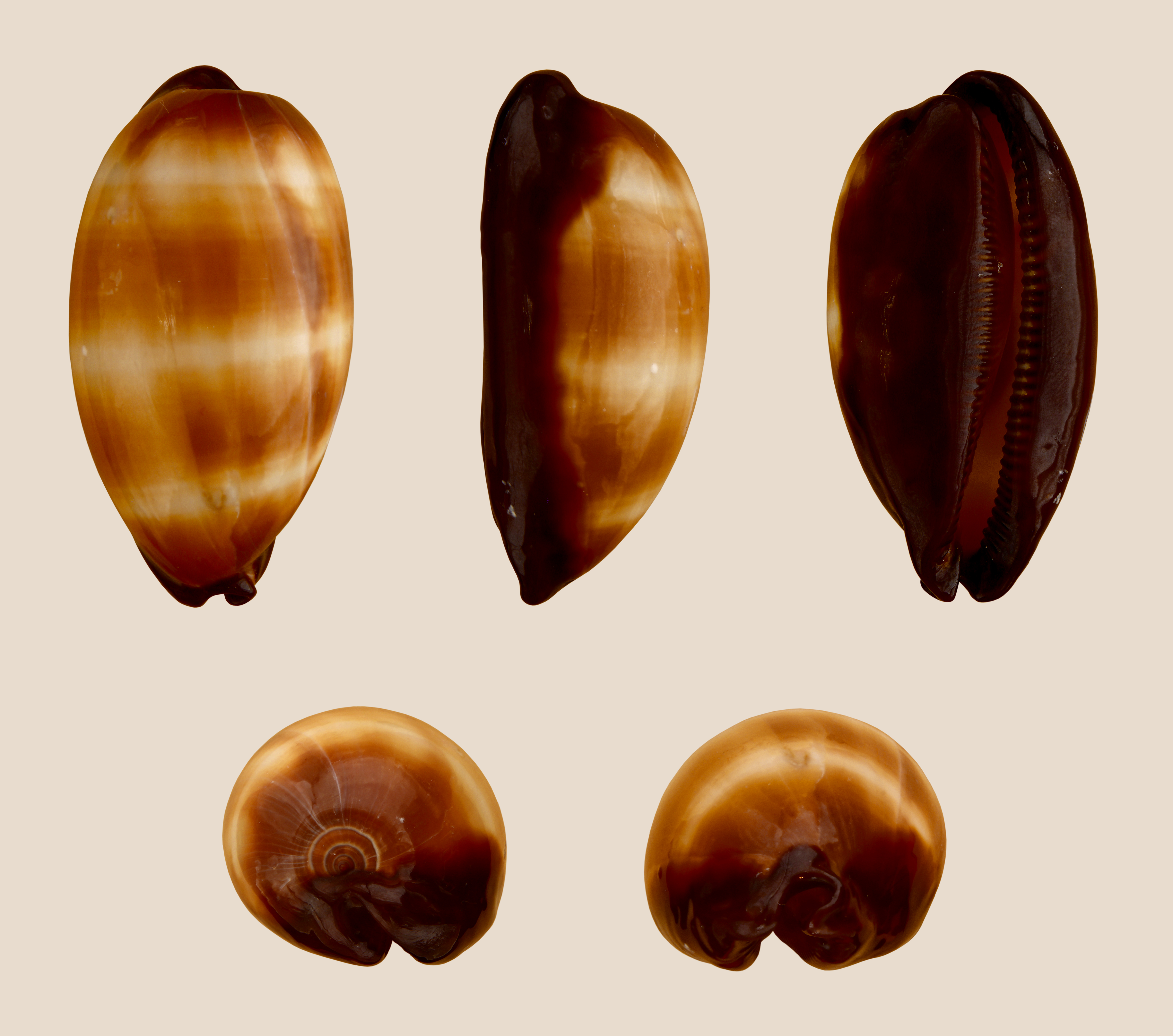 Mole Cowry; Length 5.5 cm; Originating from the Indopacific; Shell of own collection, therefore not geocoded. Dorsal, lateral (right side), ventral, back, and front view.